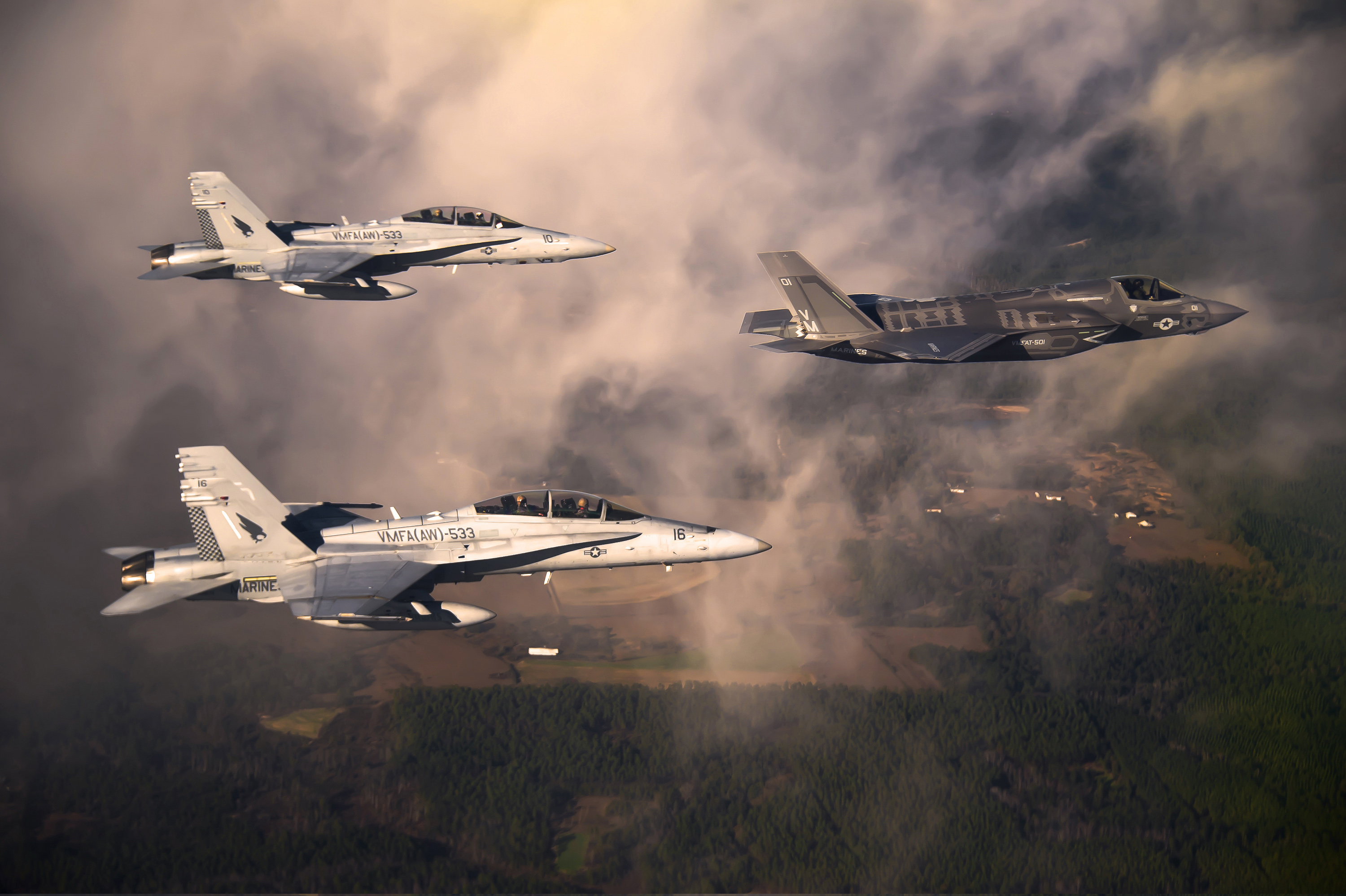 A U.S. Marine Corps F-35 Lightning II aircraft is escorted by two Marine F/A-18 Hornets as it flies toward Eglin Air Force Base, Fla., on Jan. 11, 2012. The Marine Fighter Attack Training Squadron 501 received two F-35s.